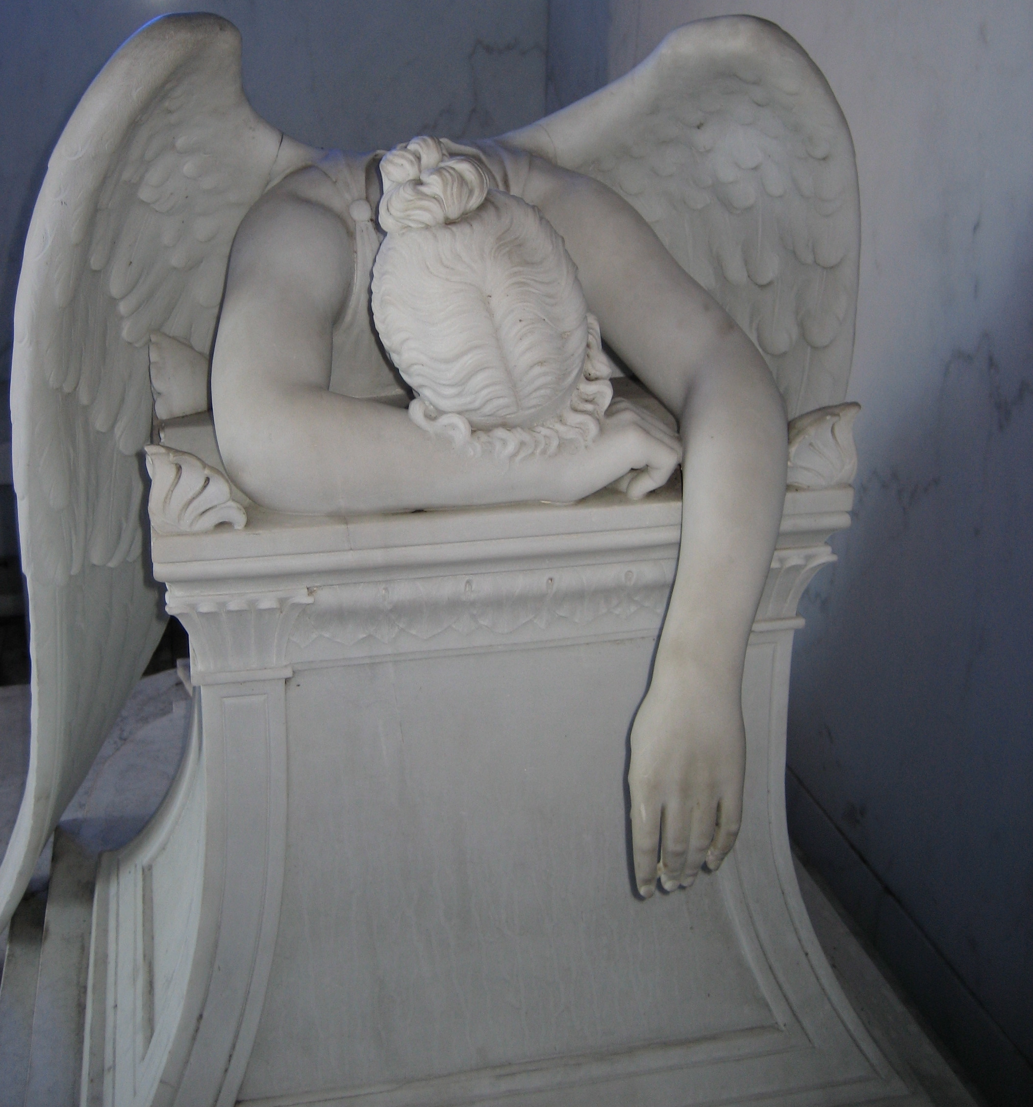 19th century marble sculpture of despondant angel in tomb in Metairie Cemetery, New Orleans. (The sculpture is a copy of Story's Angel of Grief of 1894 at Cimitero Acattolico (Roma))